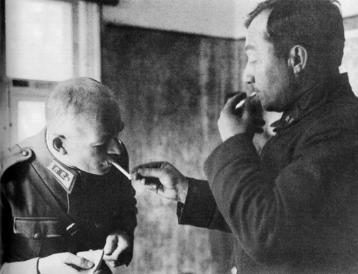 Soviet division commander Vladimir V. Kirpitsnikov, prisoner of war in 1941, lights a smoke for Finnish general Lennart Oesch. Kirpitsnikov was caught inside a pocket (motti) during the Finnish reconquest of the Karelia.